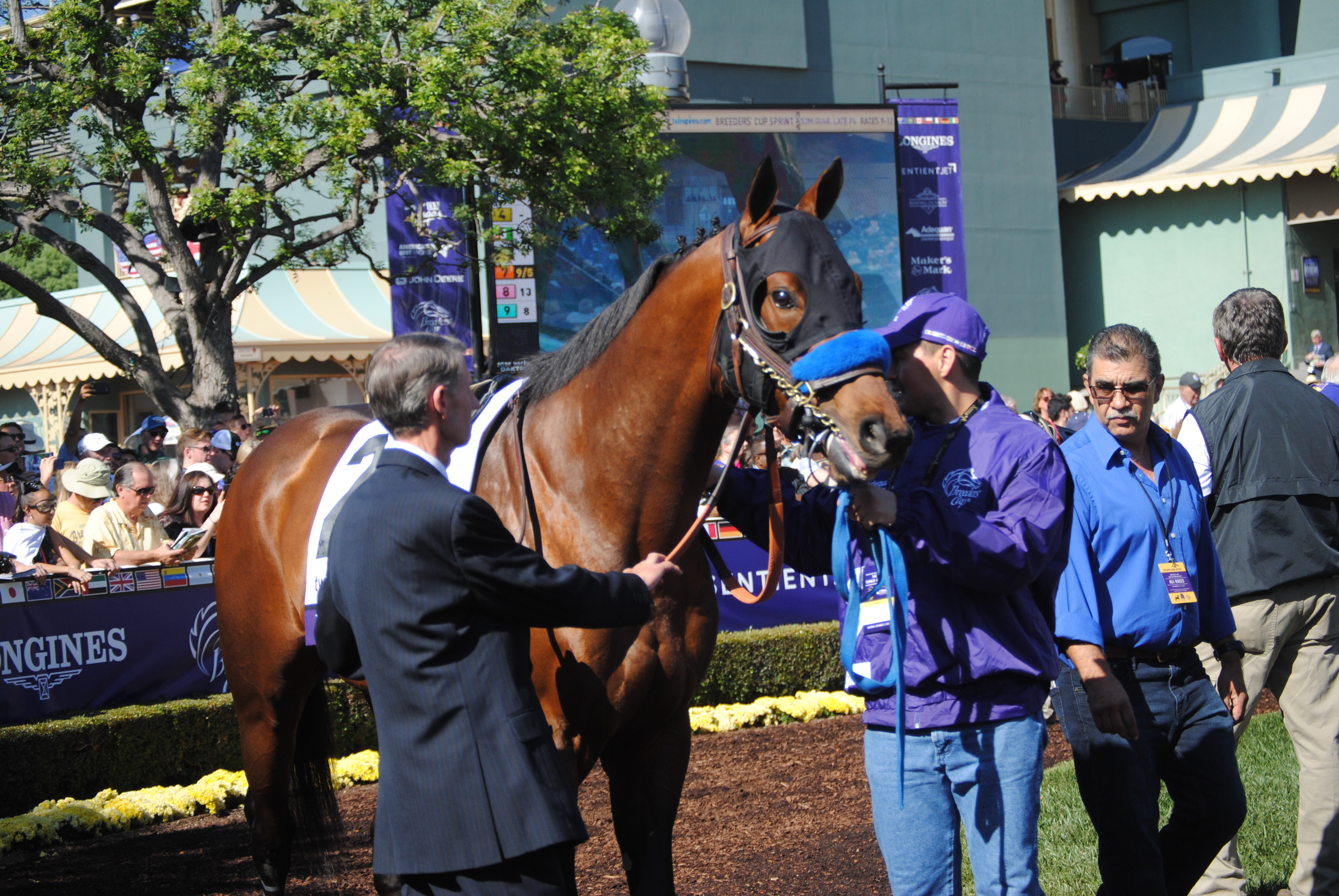 Drefong being led over for saddling in the Sprint